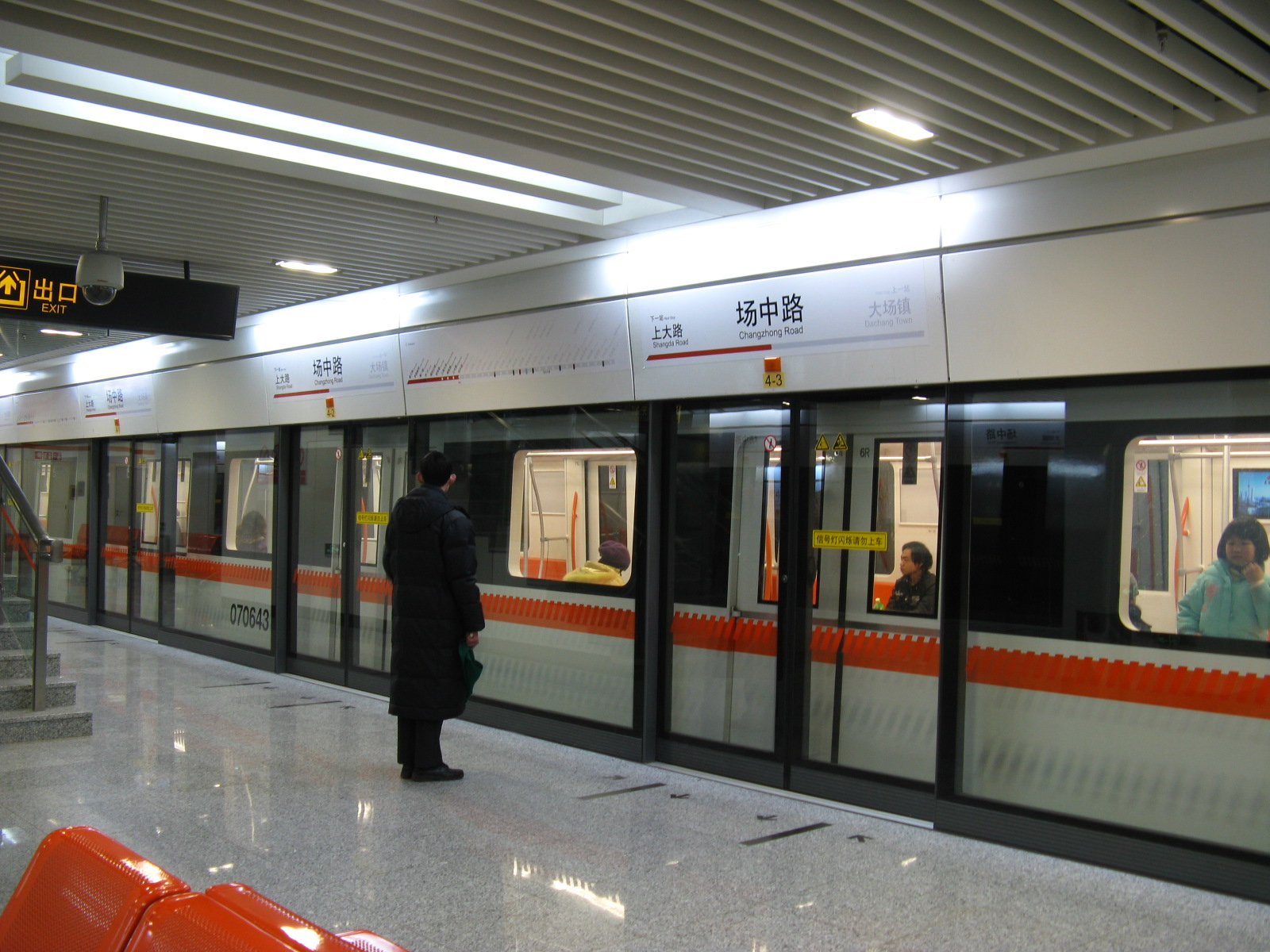 Changzhong Road Station Line7 Shanghai Metro